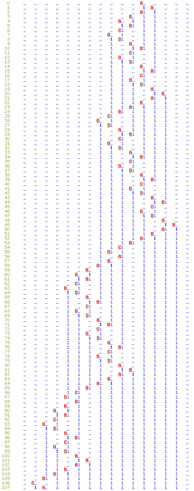 Shows the run of a 4-state 2-symbol Busy Beaver. See File:MonusTuringMachine ExampleRuns.gif for the meaning of colors.